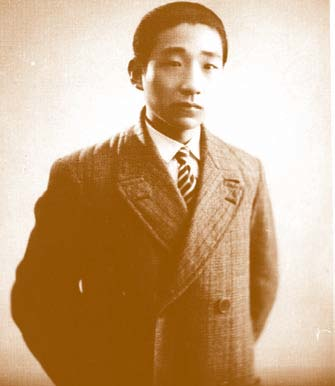 Bei Shizhang,was a Chinese biologist and educator. He was an academician at the Chinese Academy of Sciences.